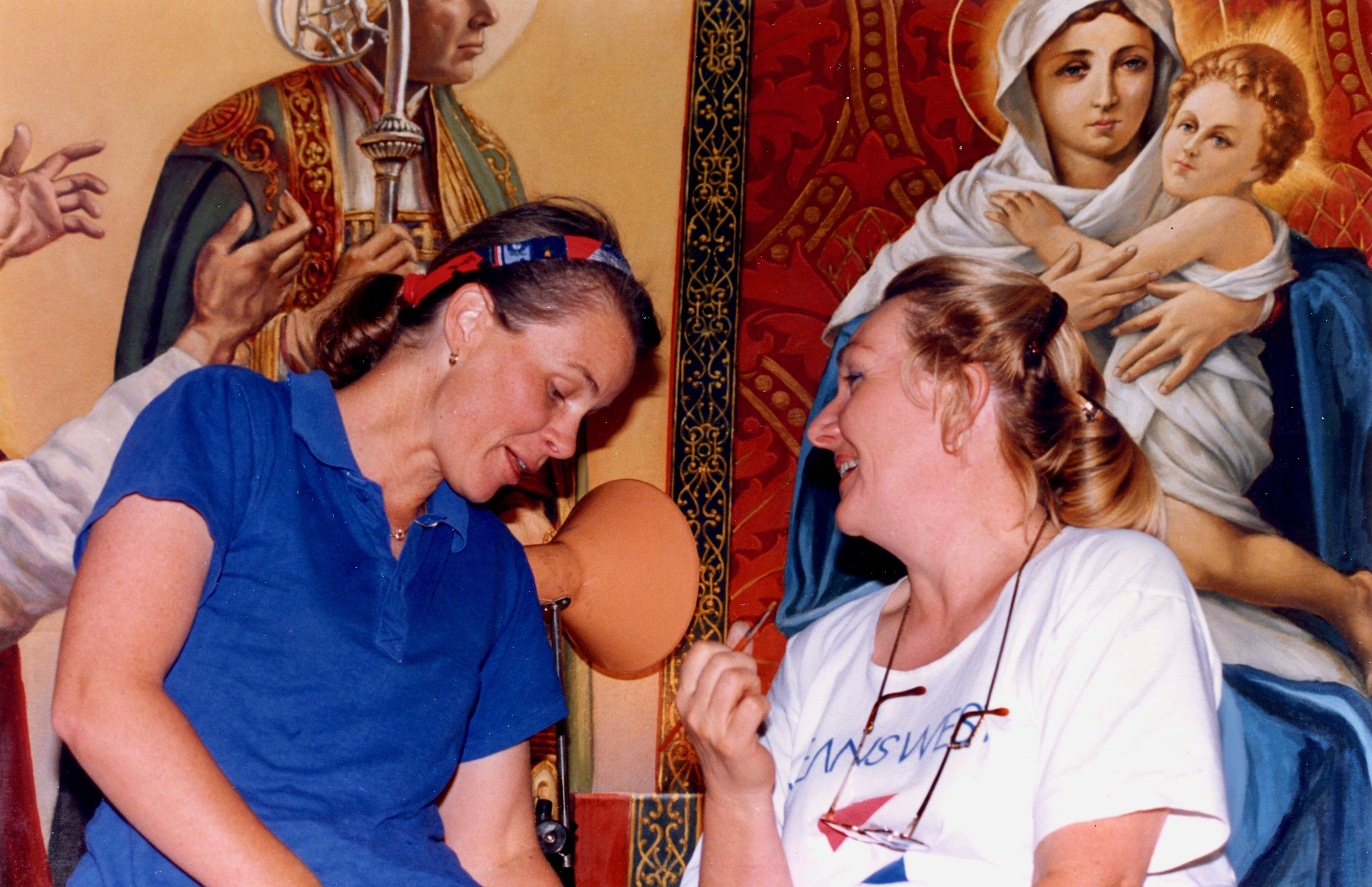 Barbara Cena (r), the mural in All Saints', Collie, Western Australia, 5 March 1994